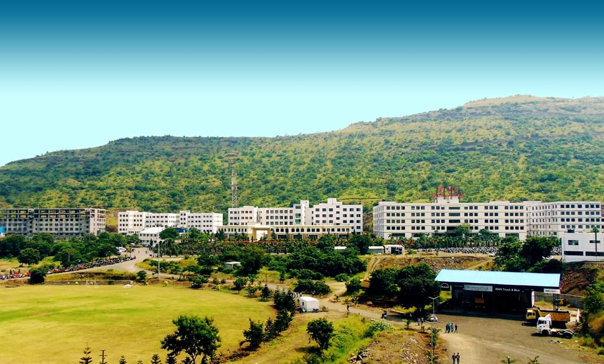 IIIT Pune Running at its Temporary Campus at Yewalewadi